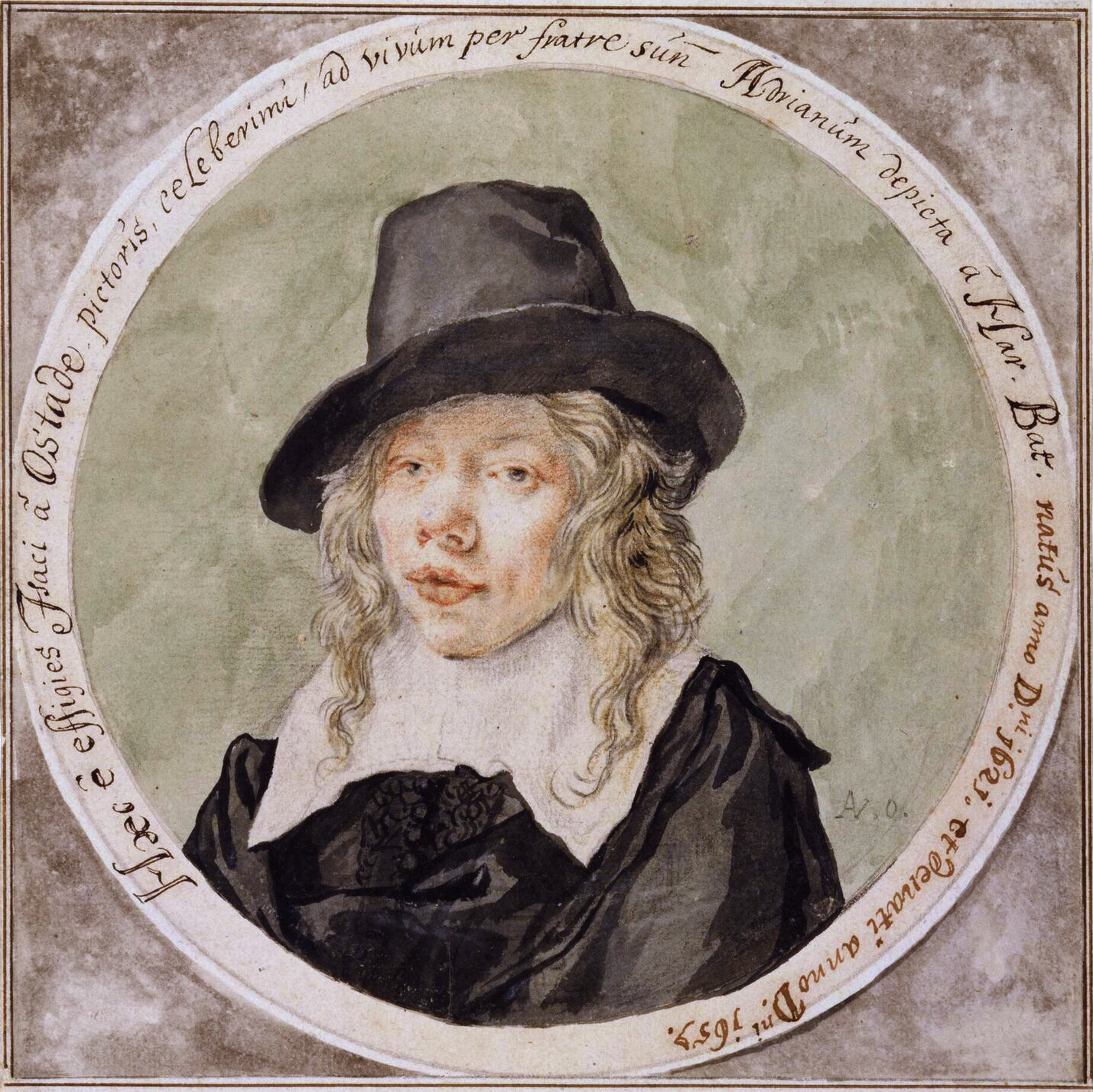 Isaac van Ostade (1621-1649) drawing, black chalk, red chalk, water colour 19.4 x 18.1 cm ca 1680-1704 previously attributed to Adriaen van Ostade